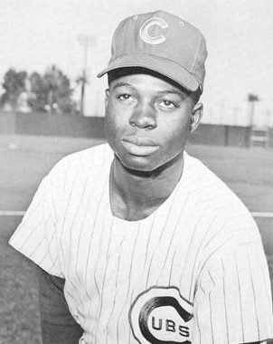 Professional baseball player Lou Brock